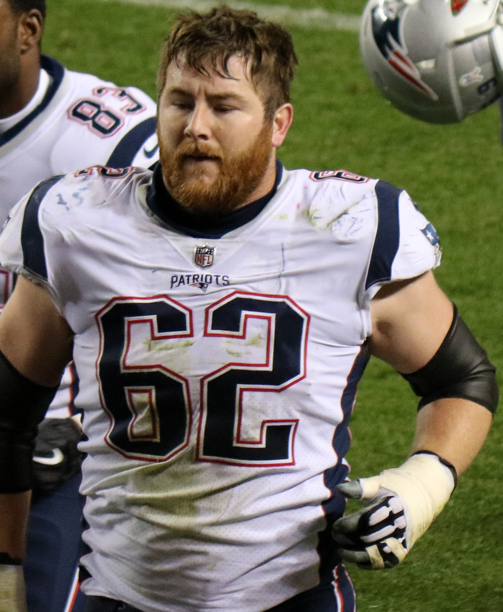 Joe Thuney, a National Football League player.